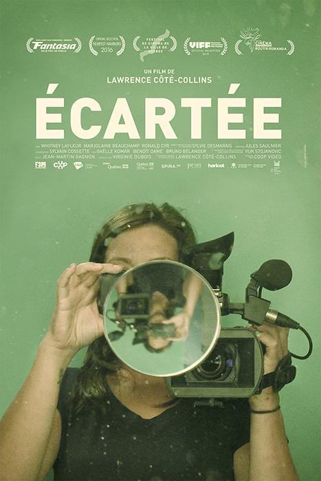 Poster of the movie Split (Q55237863)